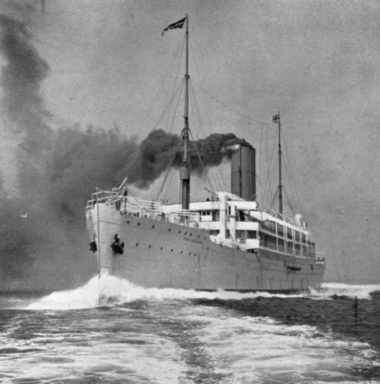 RMS Port Kingston, built in 1904 for Elder Dempster Lines' Bristol – Jamaica service. In 1911 she was bought by the Union Steamship Co of New Zealand and renamed Tahiti. She was a troop ship in the First World War and sank in 1930.